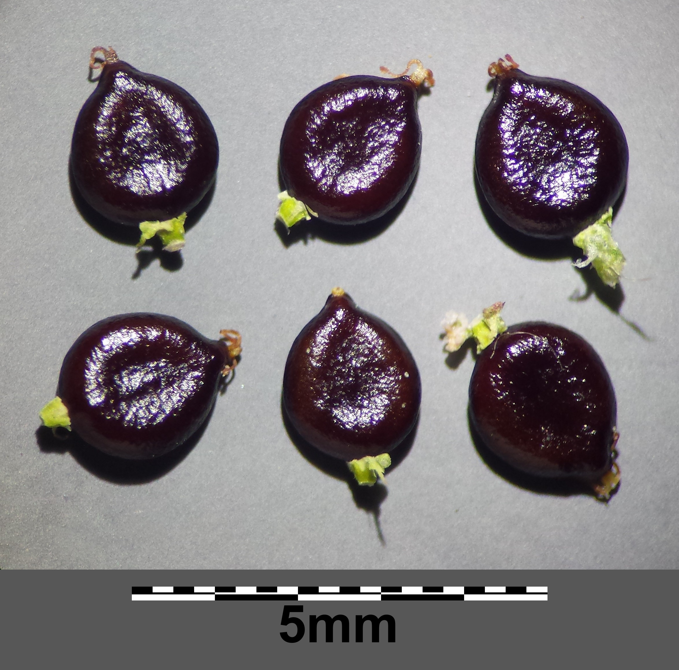 Nuts Taxonym: Persicaria lapathifolia subsp. brittingeri ss Fischer et al. EfÖLS 2008 ISBN 978-3-85474-187-9 Location: Schichtgründe, Leopoldau, Vienna-Floridsdorf - ca. 160 m a.s.l. Habitat: building zone